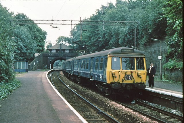 Kirkhill railway station Original description: Kirkhill station 1979 Glasgow area "blue train" awaits the photographer before returning to Glasgow Central.